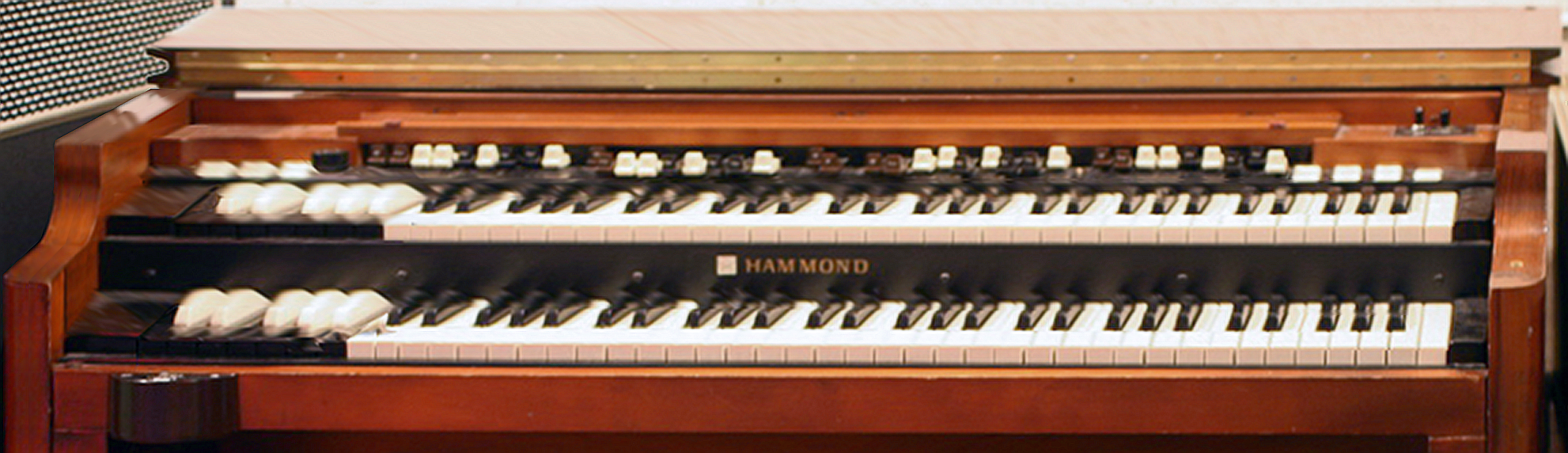 Hammond B3 manuals